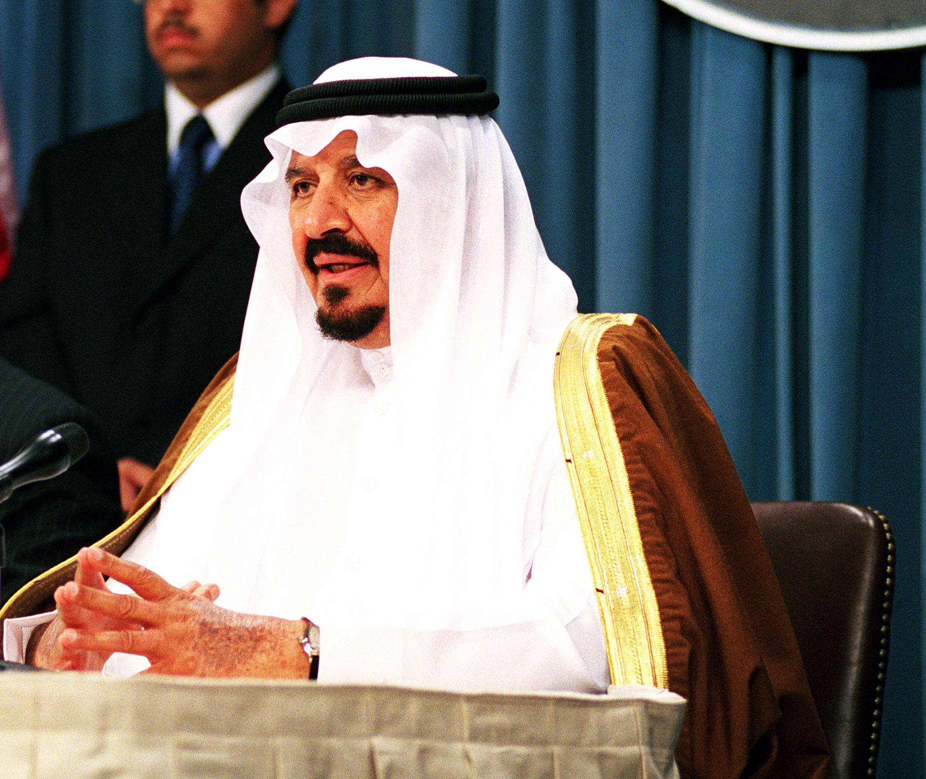 Crown prince of saudi arabia Price Sulatan bin abdulazizi in US